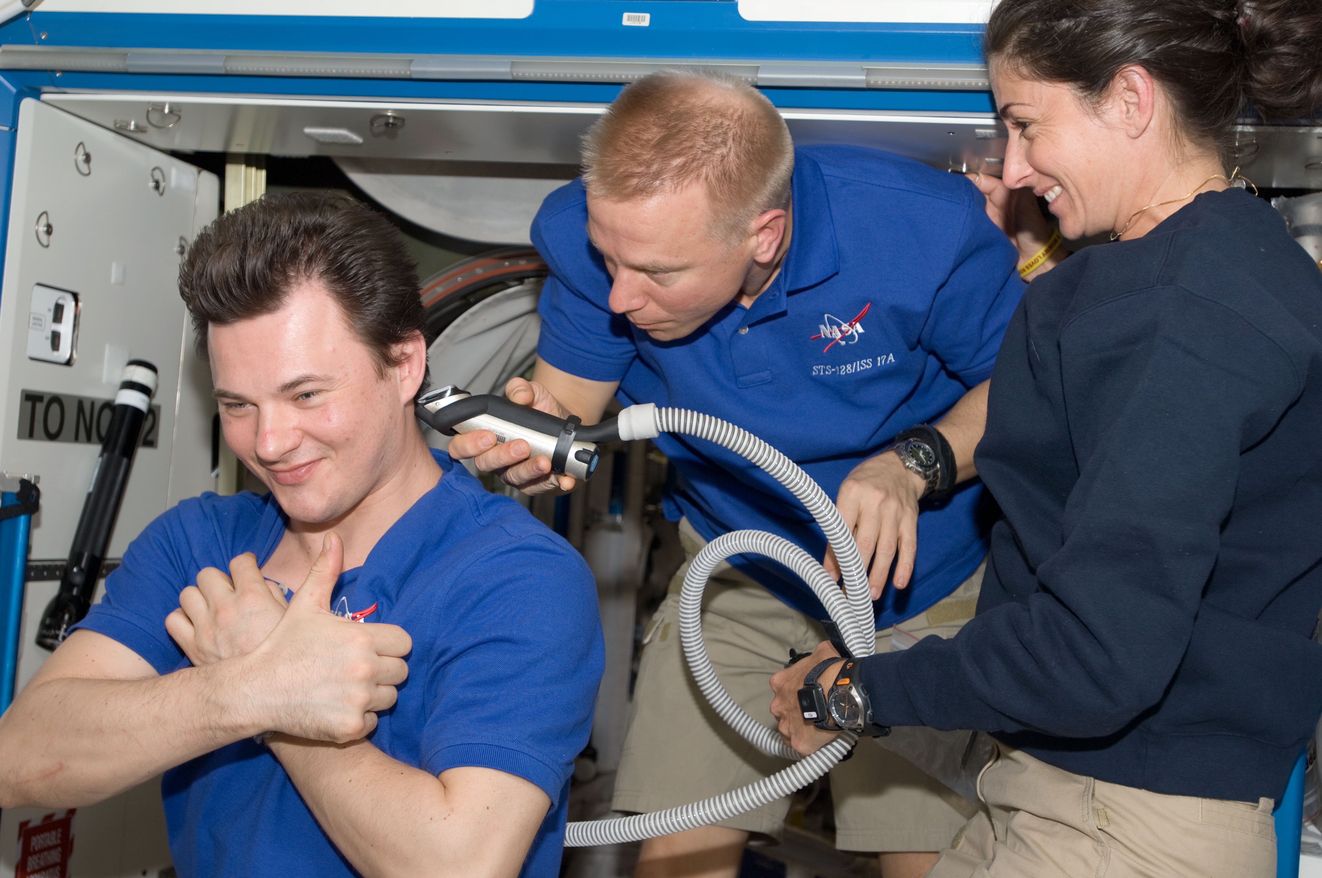 NASA astronaut Tim Kopra, STS-128 mission specialist, trims Russian cosmonaut Roman Romanenko's hair in the Destiny laboratory of the International Space Station while Space Shuttle Discovery remains docked with the station. NASA astronaut Nicole Stott, Expedition 20 flight engineer, looks on. Kopra used hair clippers fashioned with a vacuum device to garner freshly cut hair.